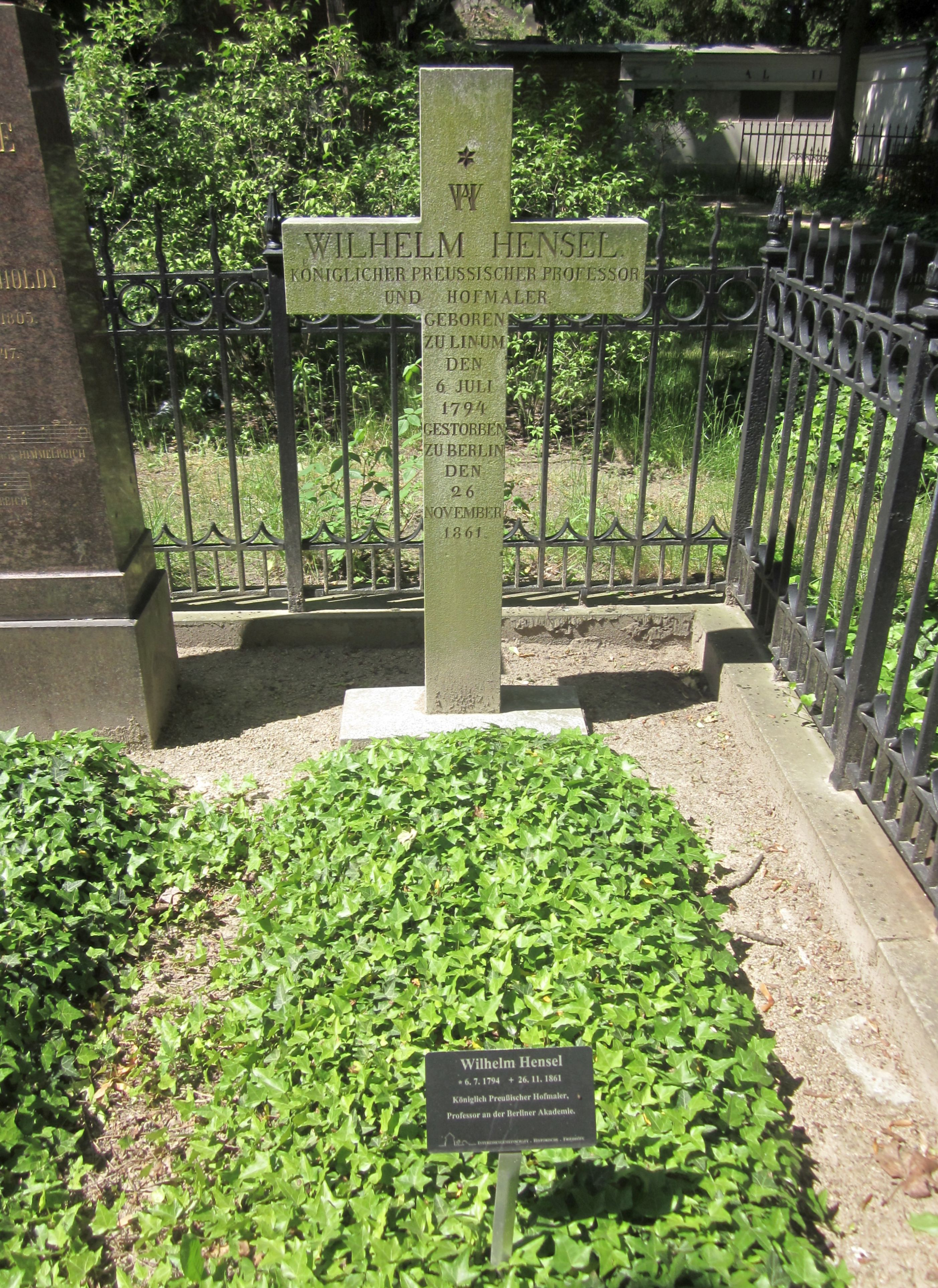 Grave of the painter Wilhelm Hensel (1794-1861) on the Mendelssohn-Bartholdy family grave on the Cemetery I of Trinity Church at Mehringdamm in Berlin-Kreuzberg. Grave of Honor of the State of Berlin.